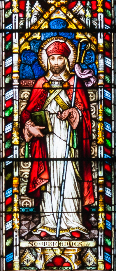 Lower left panel of the four-light stained glass window behind the main altar in the east, depicting Muredach. Created by Mayer & Co., Munich. (See The Cathedrals of Ireland, ISBN 0-85389-452-3, p. 25.)